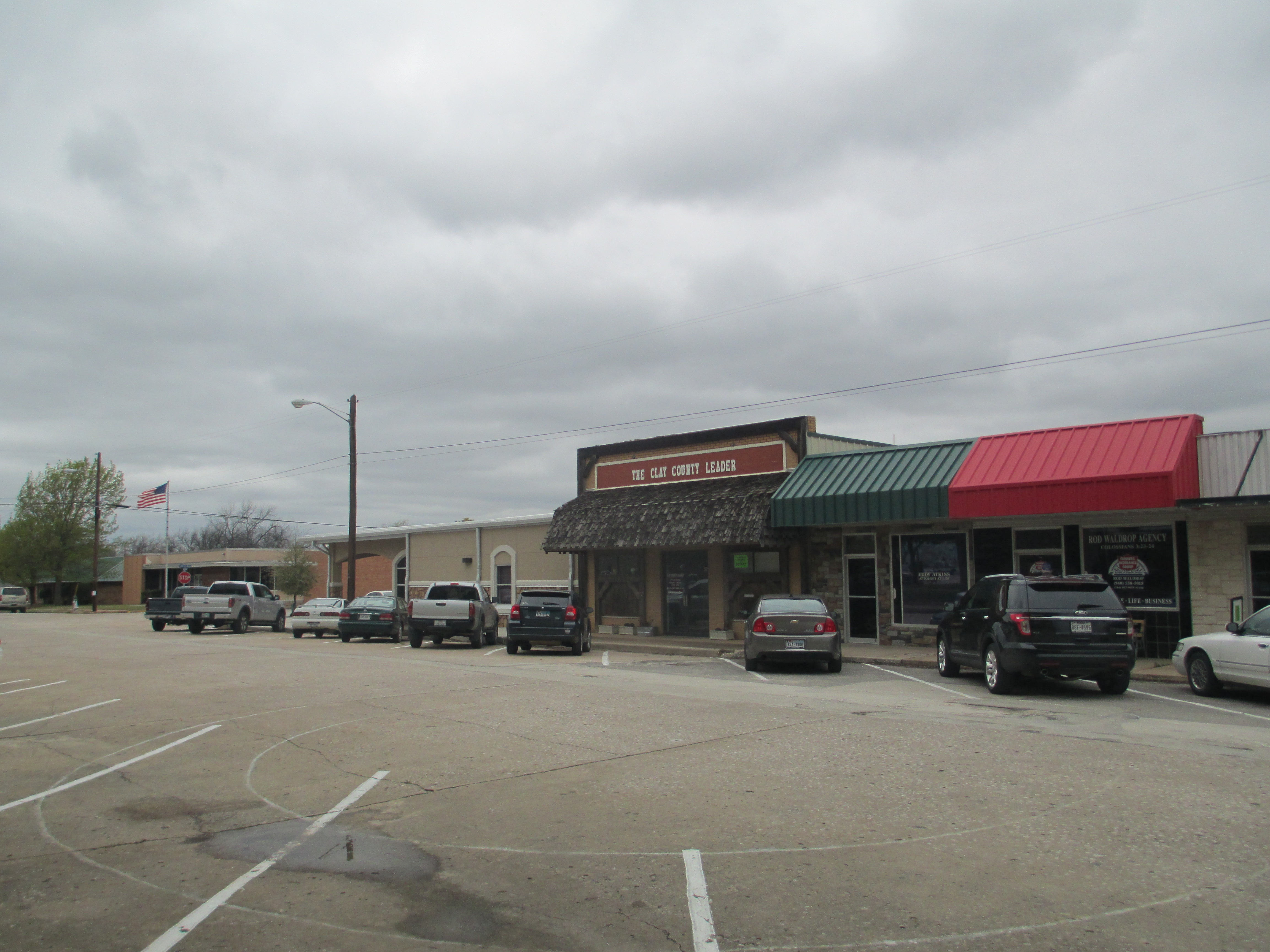 I took photo of downtown Henrietta, Clay County Leader newspaper, with Canon camera, April 4, 2013. Billy Hathorn